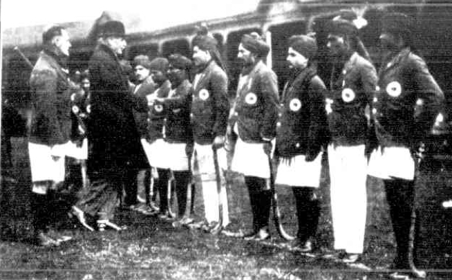 Indian Hockey Team at Adelaide Oval in 1926 with the South Australian governor.